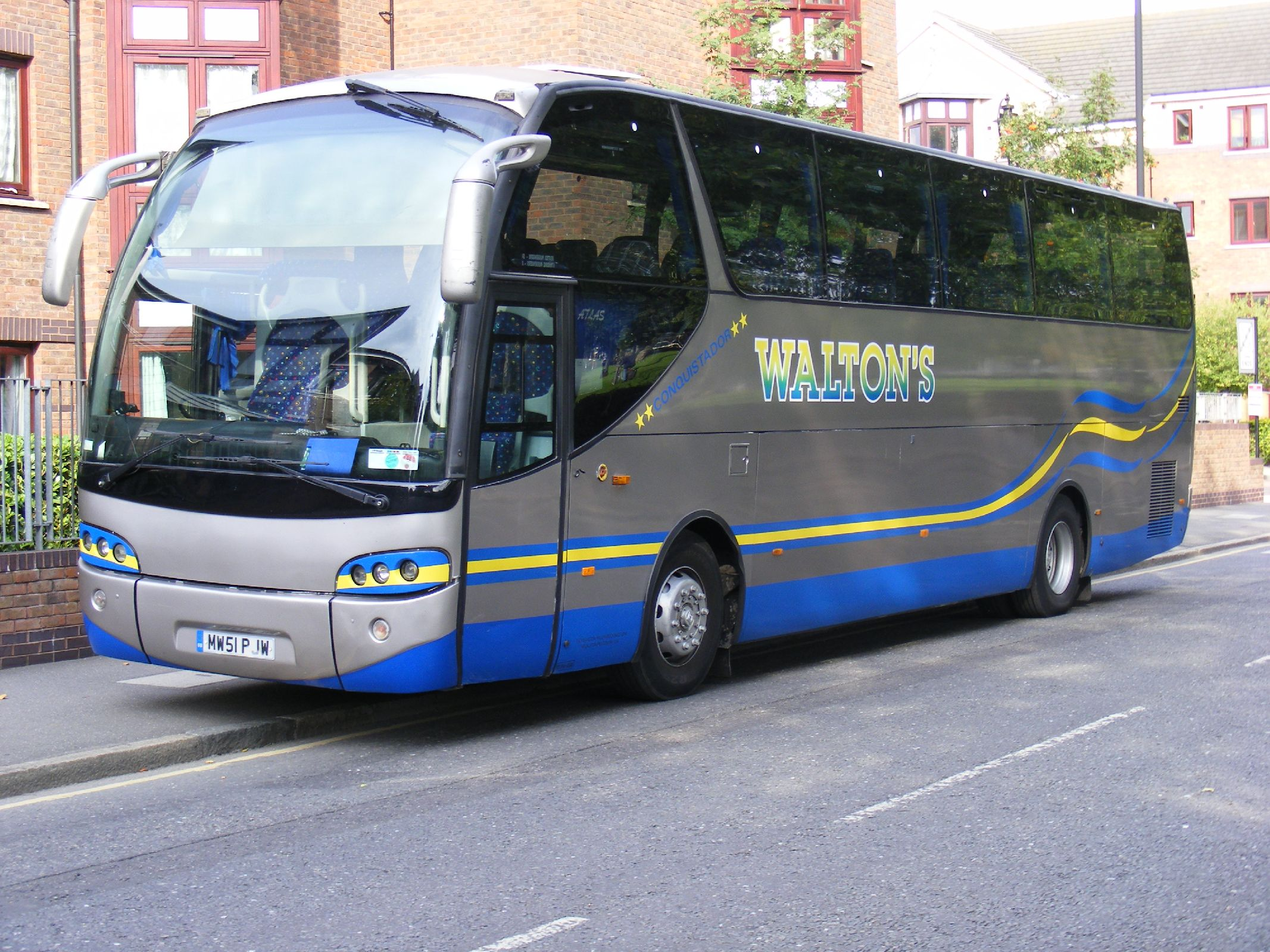 Walton's of Freckleton Ayats Atlas MW51PJW, London E5.